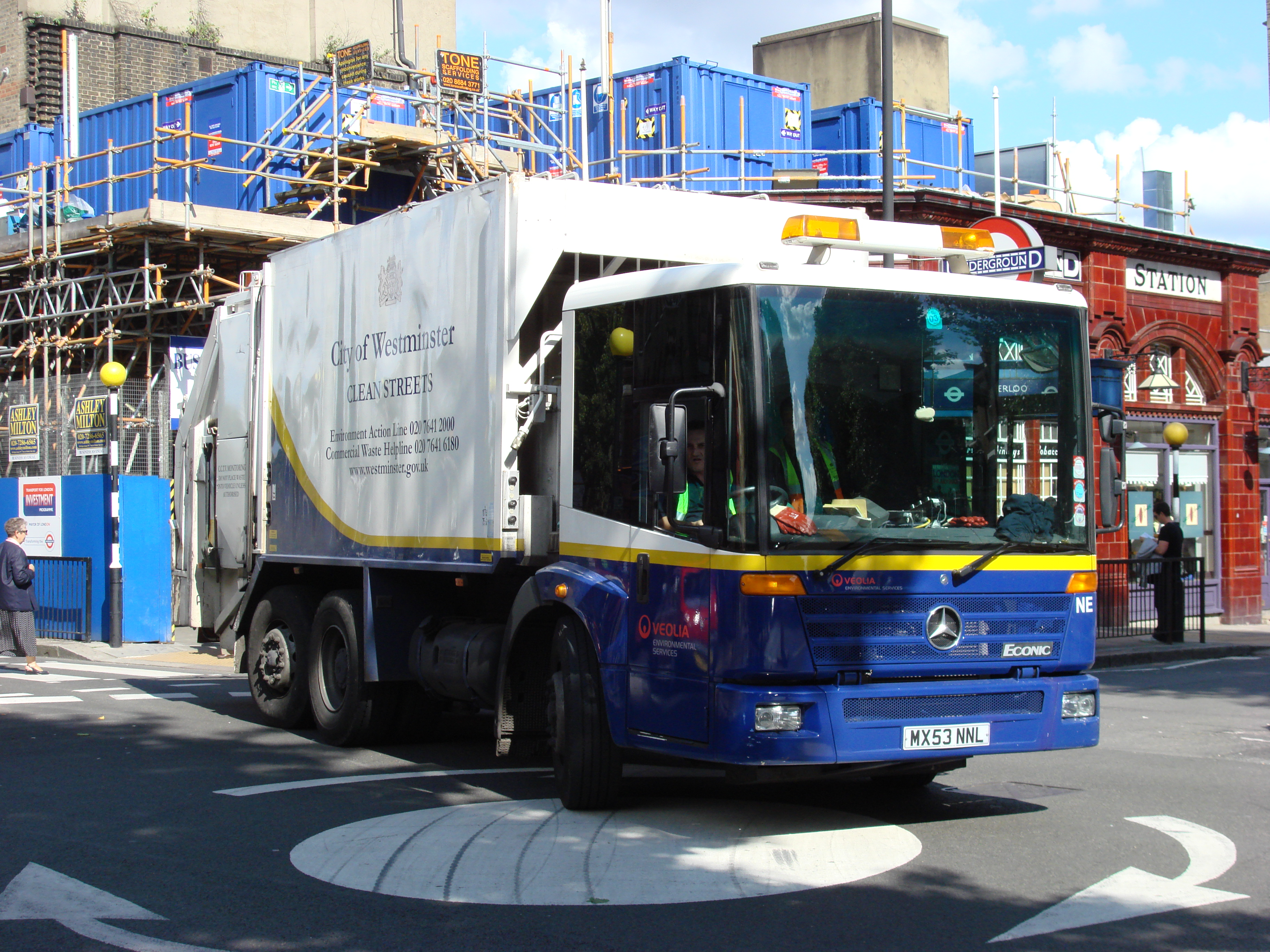 City of Westminster rubbish truck